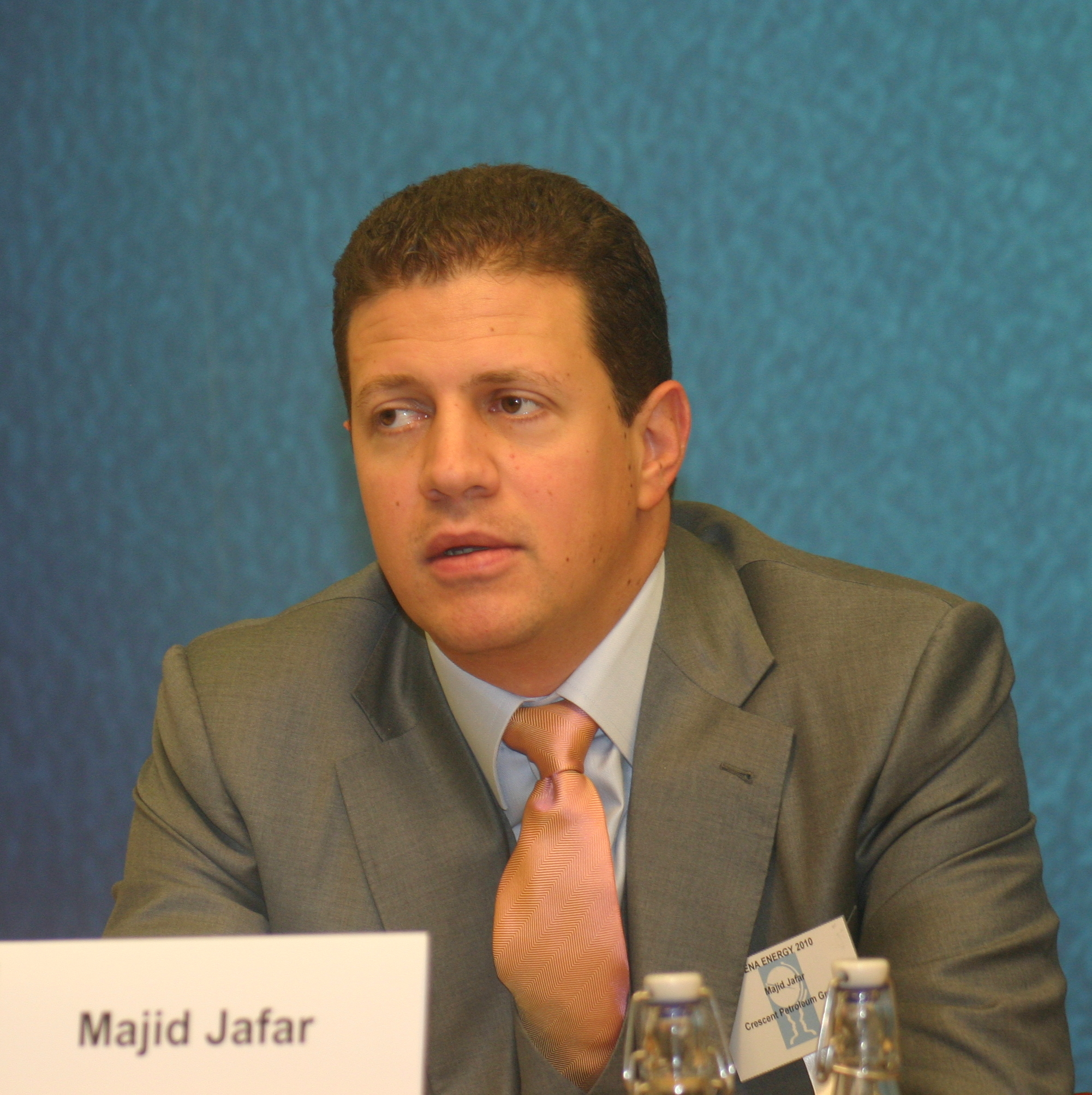 Majid Jafar speaking at Chatham House